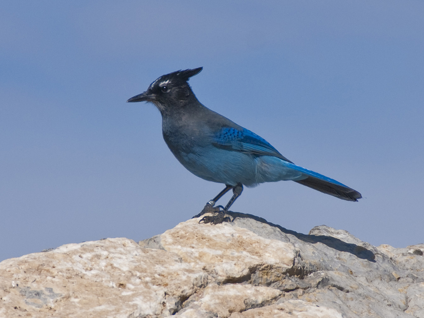 Steller's Jay Cyanocitta stelleri on Sandia Peak, New Mexico, USA. There's a band on its leg.